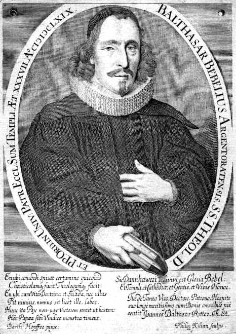 Balthasar Bebel (1632-1686) lutherischer Theologe